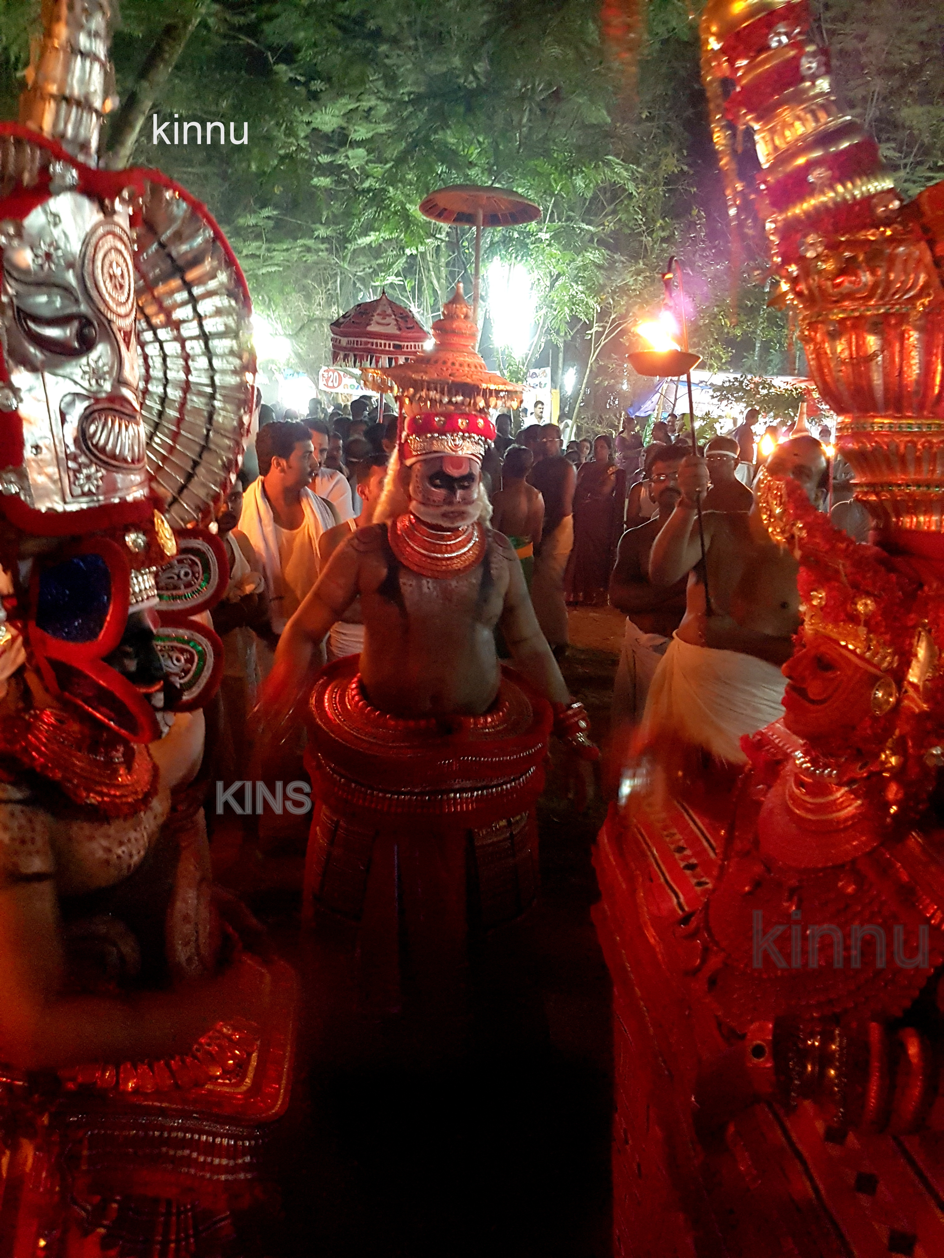 Andaloor Kavu Festival